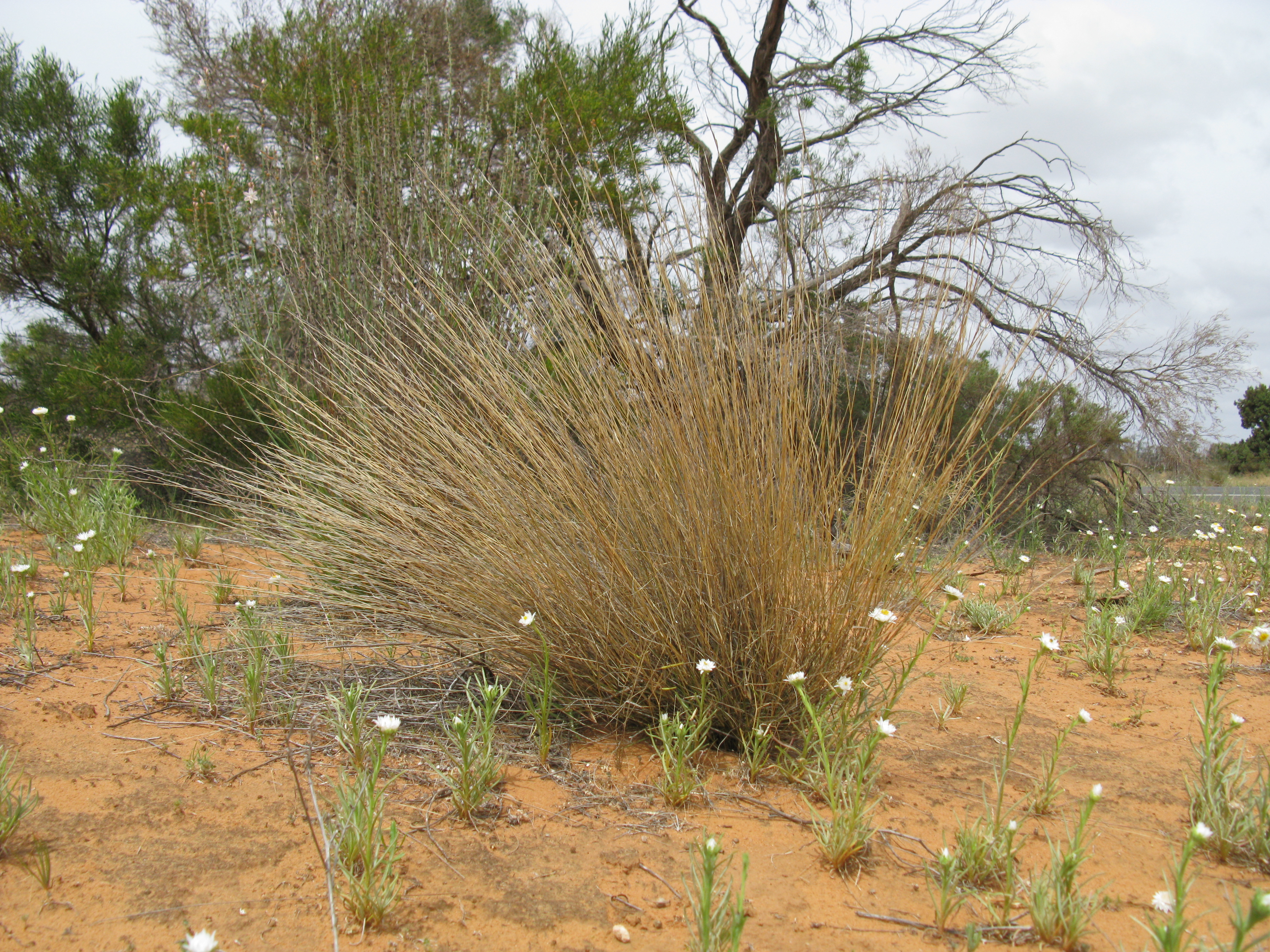 Native, warm-season, ephemeral or short-lived, slender perennial to 50 cm tall. Form compact tufts and the stems are thin and strongly branched. Grows in Mulga communities or woodland on sandy soils.